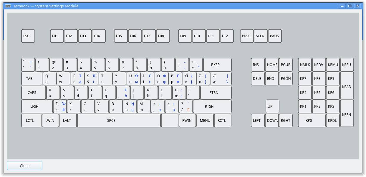 This is a screenshot of the Mmuock xkb keyboard layout, taken under Ubuntu 17.04.